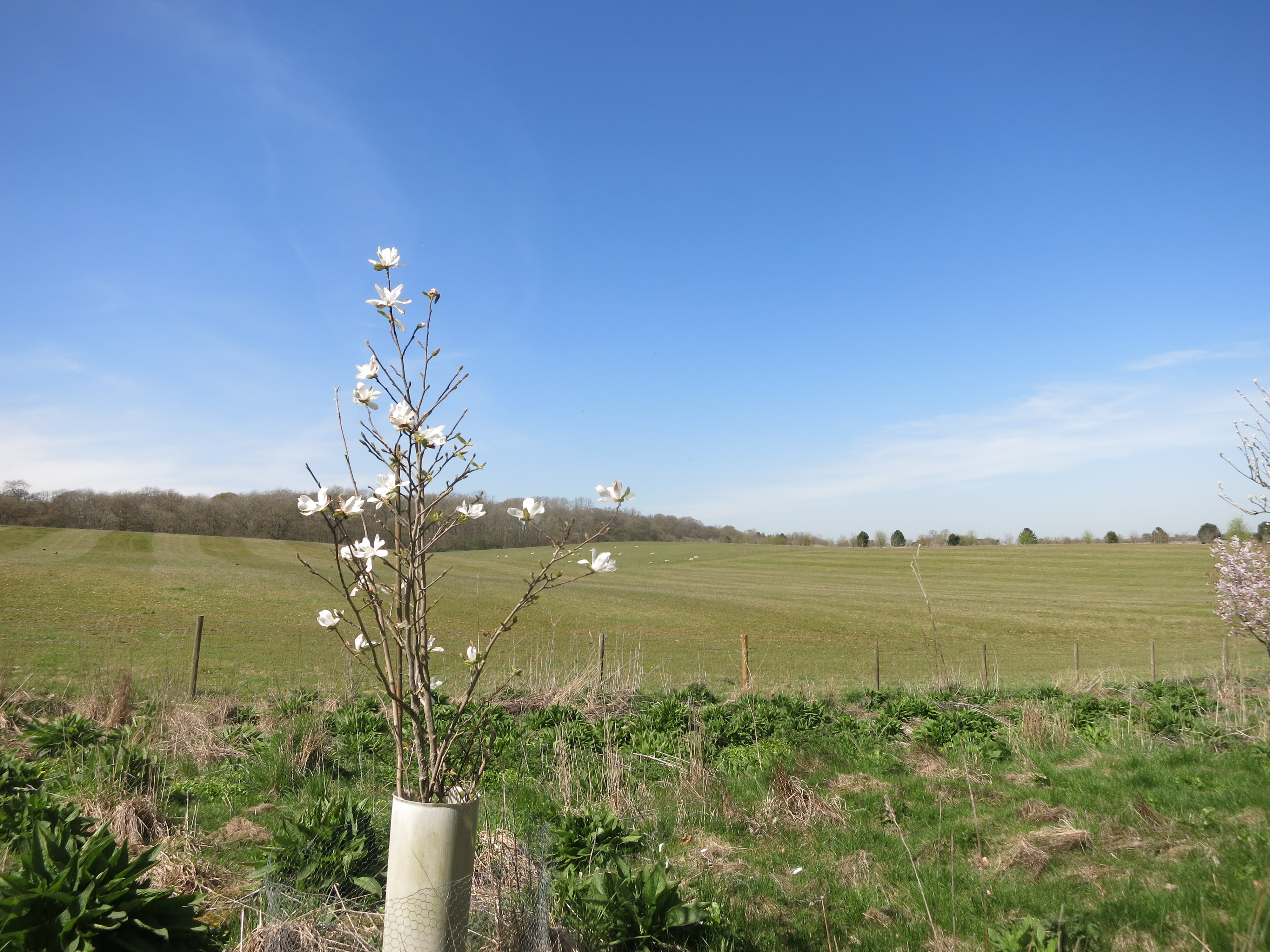 Farmland near Winterbourne